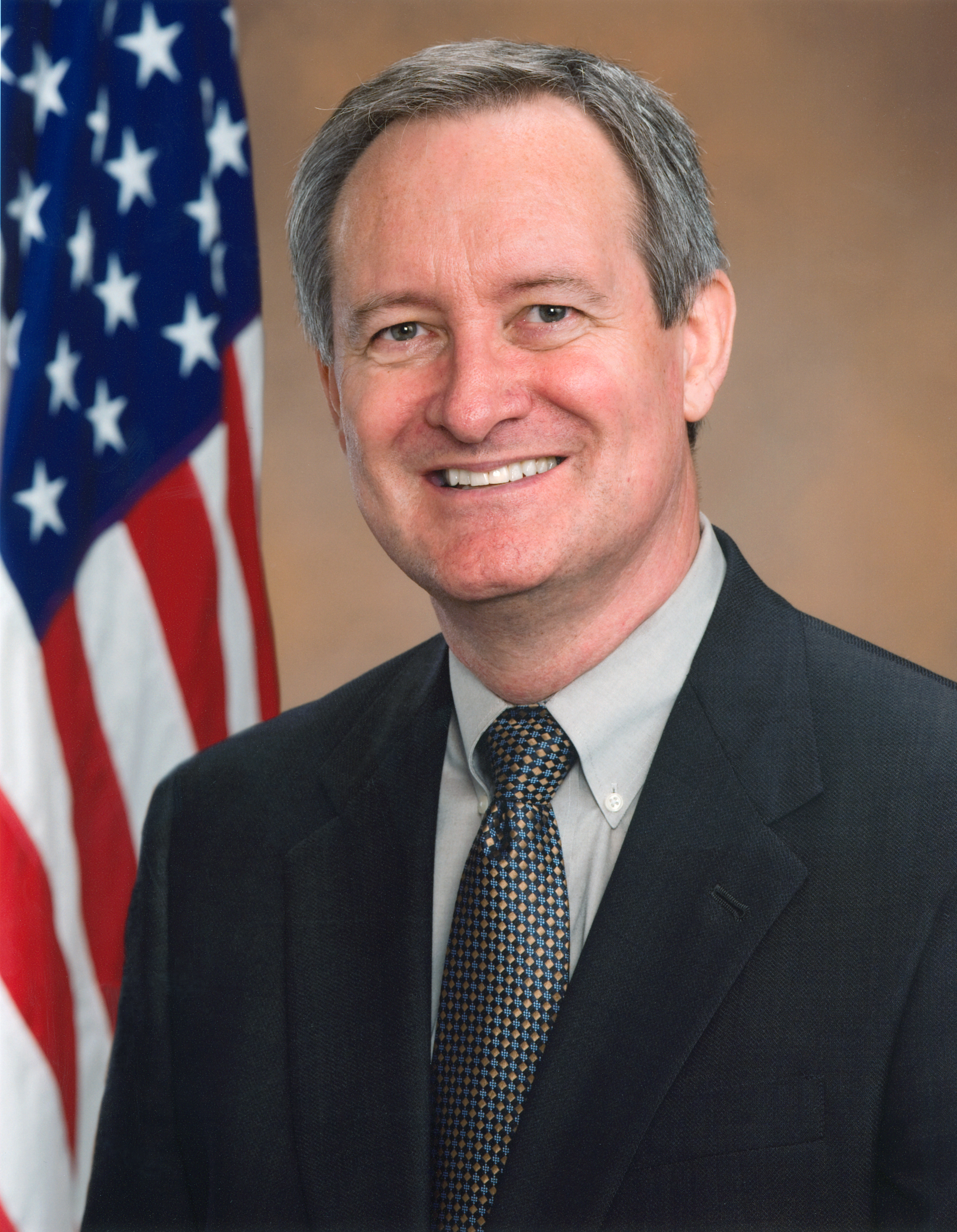 Mike Crapo, member of the United States Senate.